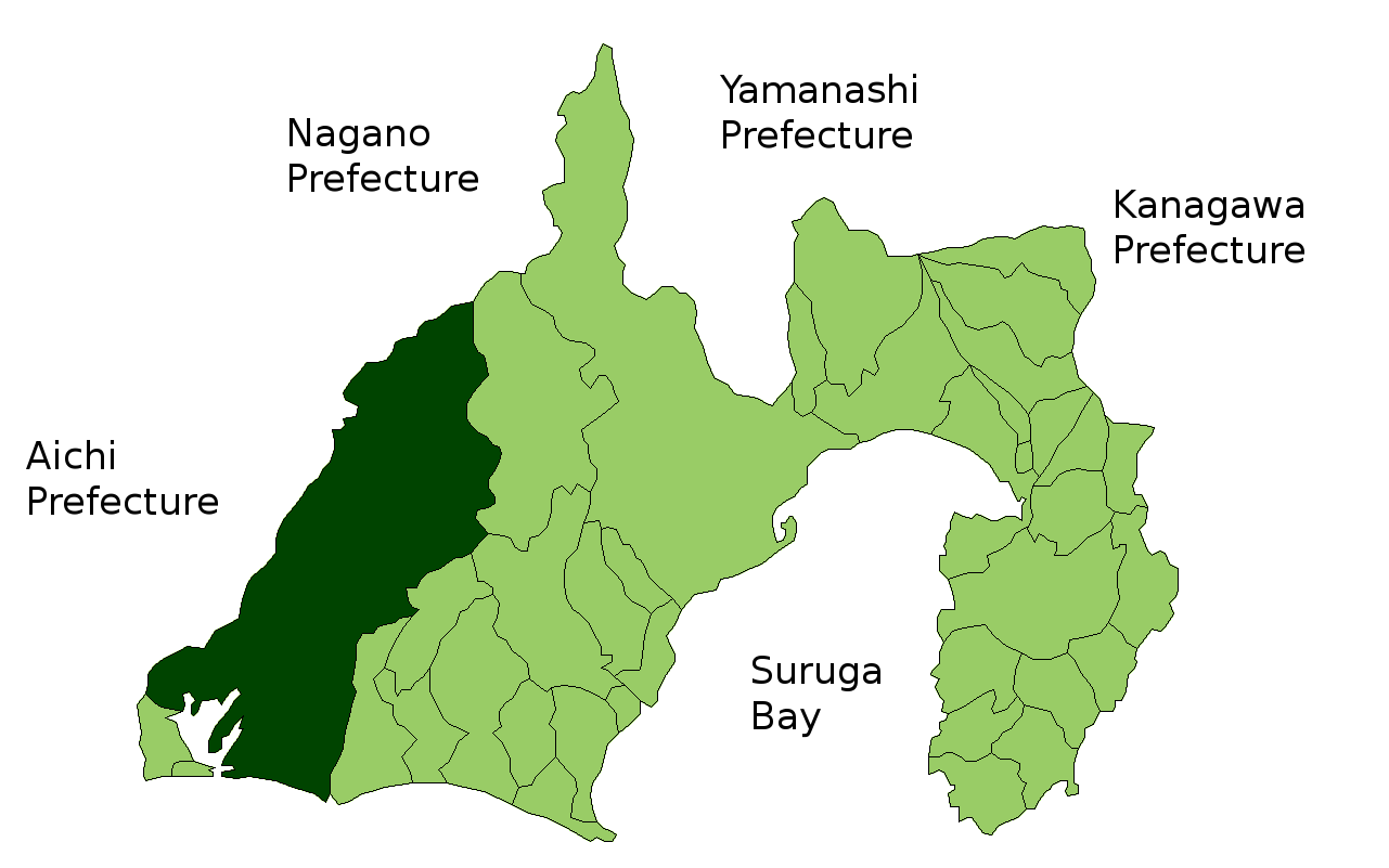 The location of Hamamatsu in Shizuoka Prefecture, Japan